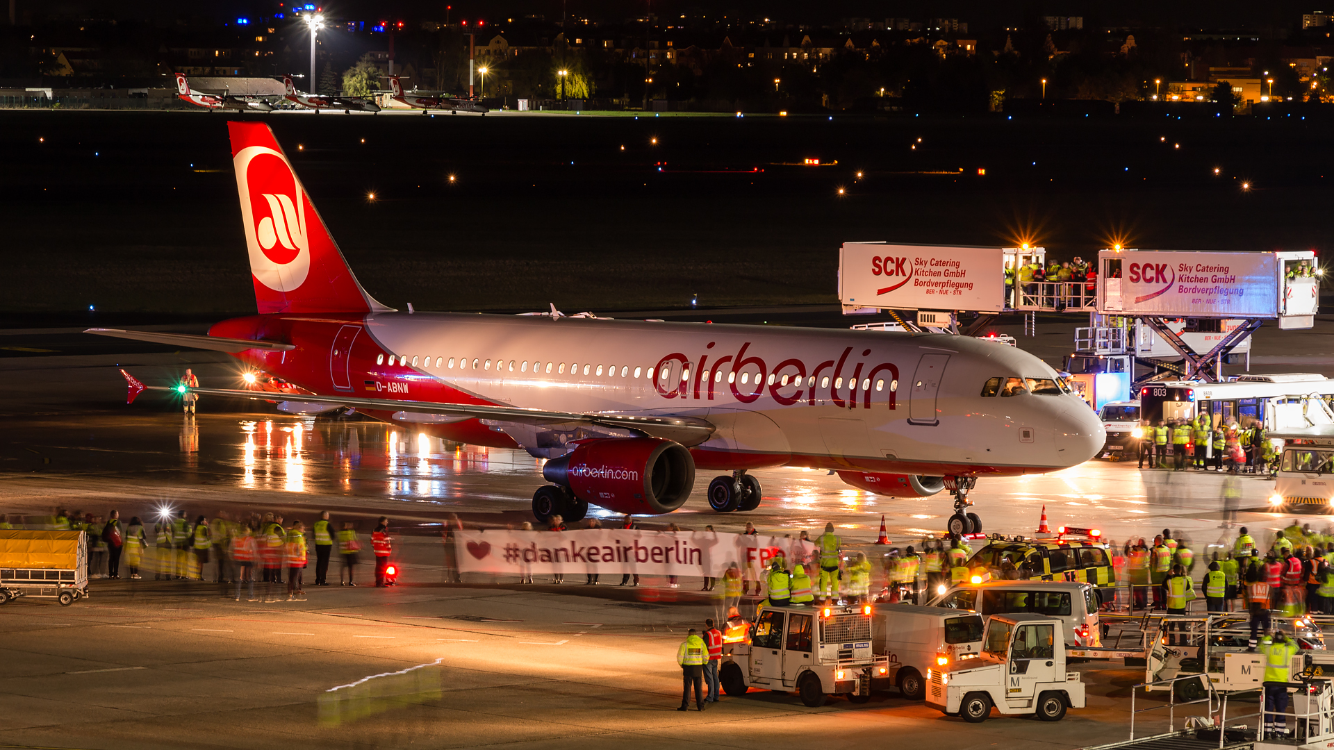 The last flight of Air Berlin from Munich to Tegel.